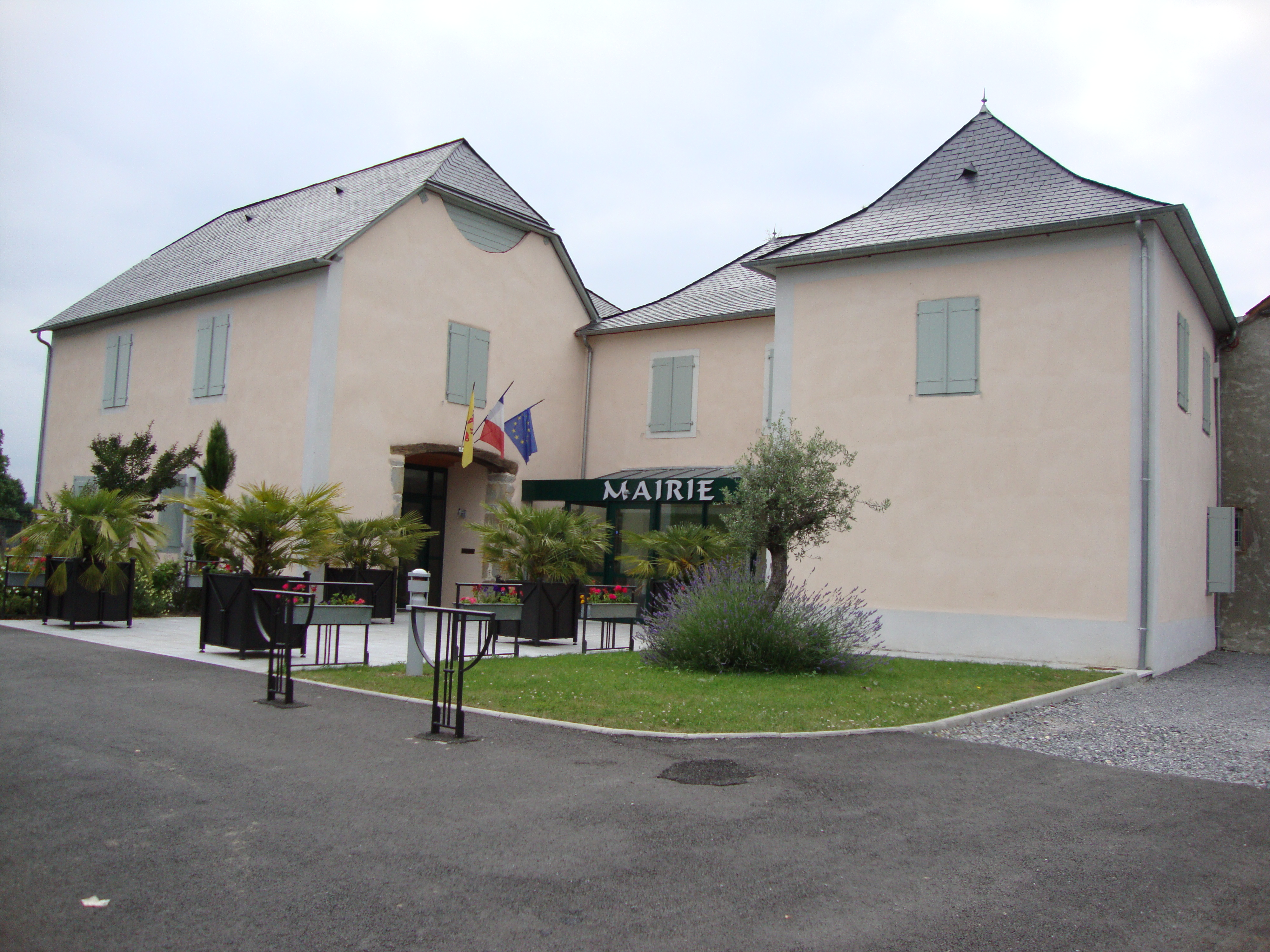 Ledeuix (Pyr-Atl, Fr) town hall